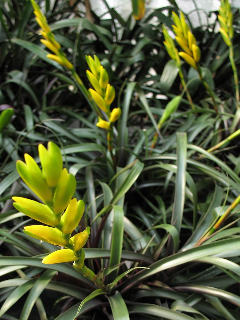 Vriesea bleherae f. atroviolaceifolia in cultivation at the Botanical Garden of Heidelberg, Germany.